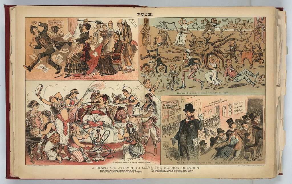 Title: A desperate attempt to solve the mormon question Abstract: Illustration shows a four panel cartoon where four Puck cartoonists each take a panel in an effort to solve the issue of Mormonism; clockwise from bottom left, captioned, "I imagine it must be a perfect paradise --Keppler", Joseph Keppler places himself at the center of a harem, smoking a hookah signed "J.K.", and surrounded by beautiful women, one bringing a bottle of "G.H. Mumm" champagne; at top left, captioned, "I think one wife is enough --Gillam", Bernhard Gillam shows a domestic scene at his home where he, labeled "Small Income", his coattails in the clutches of his wife, attempts to avoid being struck by her with a fireplace scoop, while "My Wife's Relations" stand behind her; at top right, captioned, "How long will this destructive monster be allowed to live? --Opper", Frederick Opper is shown in the lower left corner gesturing toward a large octopus labeled "Mormonism" that has caught in its tentacles "S.J.T., Uncle Sam, Public Opinion, Y.M.C.A., Public School System, Justice, Independent New Party, W.H.V., Field, Gould, Kelly, [a] New York Dive, [and the] Catholic Church", as well as Benjamin Butler, the U.S. Capitol, and reaching all the way to "Ireland"; and on the bottom right, captioned, "What is the use of Mormonism, when a man can change his wife whenever he likes? --Graetz, Friedrich Graetz stands in the foreground gesturing toward hordes of men rushing to get divorced on "Saturday. Divorce day in Chicago", and at places advertising "Divorces without publicity, Divorces procured without delay. Liberal charges, [and] Divorces obtained for $5.00". Physical description: 1 print : chromolithograph. Notes: Illus. from Puck, v. 14, no. 362, (1884 February 13), centerfold.; Copyright 1884 by Keppler & Schwarzmann.; J.K.; Title from item.